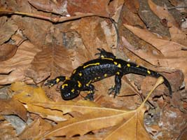 Vertebrate from Belasitsa Mountain